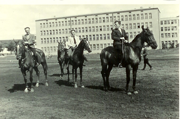 IfL riding lessons in Torun